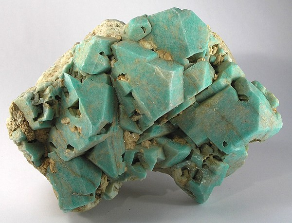 Microcline (Var.: Amazonite), Microcline Locality: Konso, Sidamo-Borana Province, Ethiopia (Locality at ) Size: 21.5 x 17.0 x 13.8 cm. Here is a cluster of amazonite crystals to over 6.5 cm across their terminations, piled up on underlying white microcline. The color is a fine robin’s-egg blue.